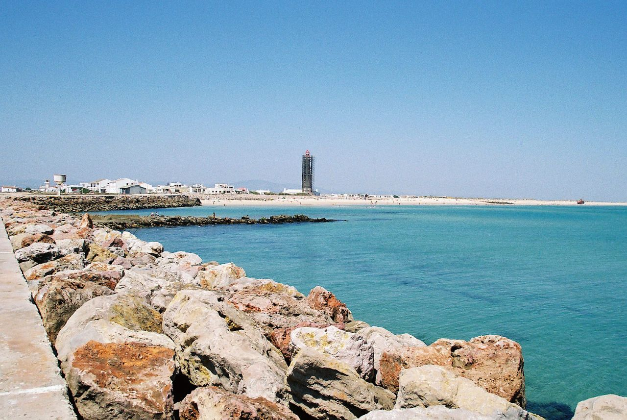 See where this picture was taken. [?]